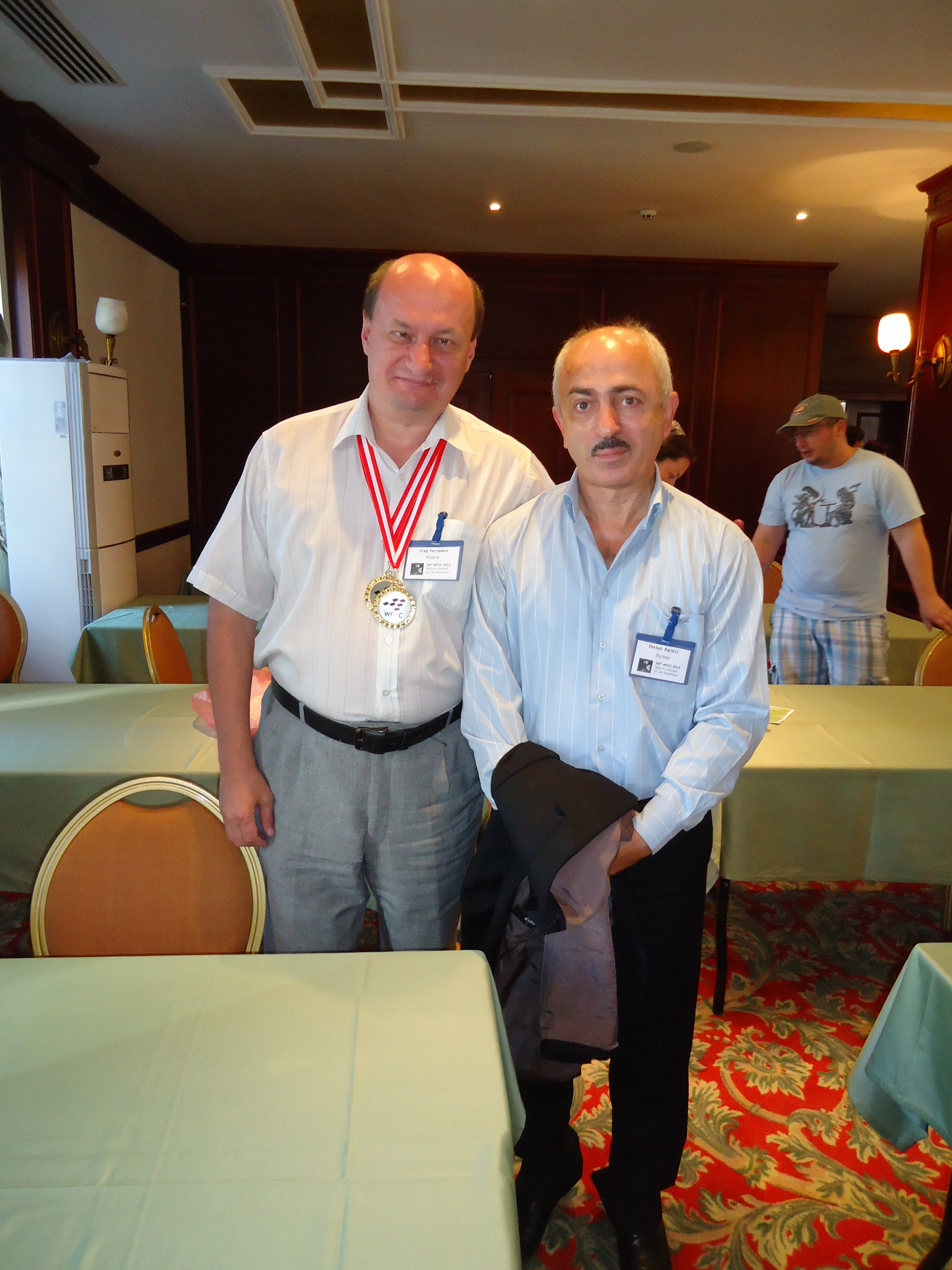 Oleg Pervakov and Ferhat Karmil at the 56th Congress on Chess Composition